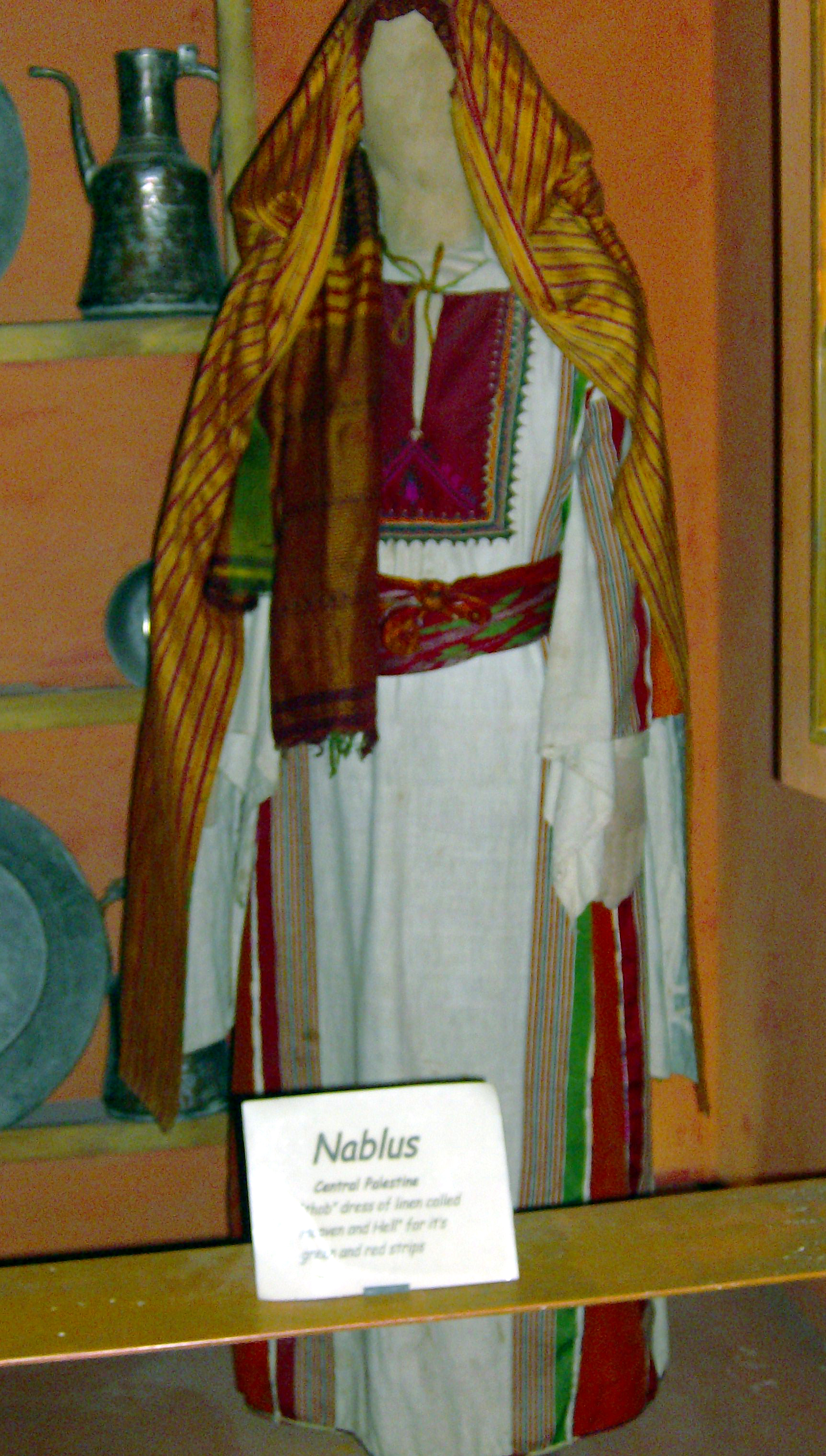 Nablus costume, my own photo collection, 2007, taken at the Folklore Museum of the Department of Antiquities of the Jordanian Ministry of Tourism & Antiquities in Amman. Category:Palestinian clothing